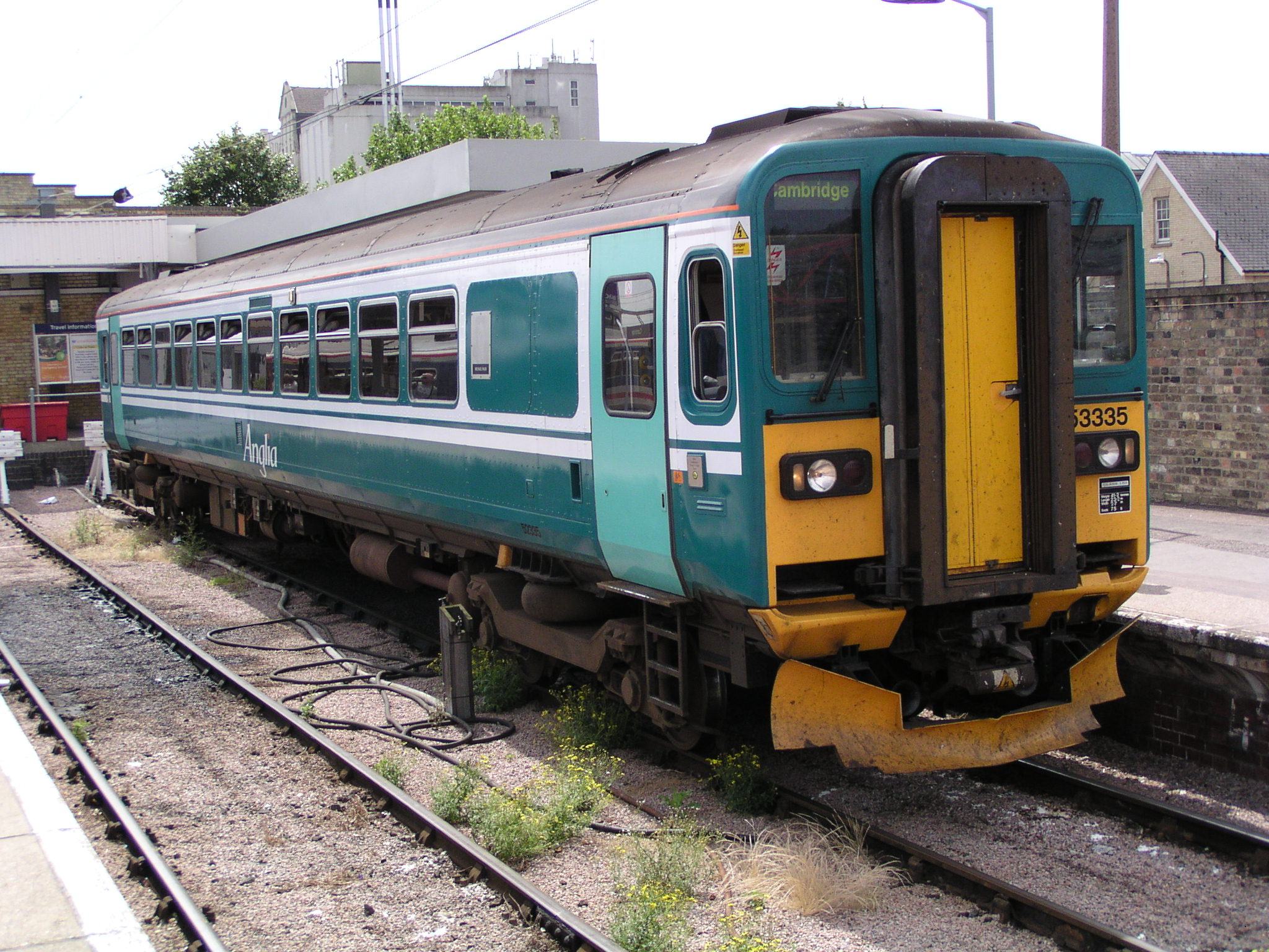 This image was copied from (Image:153335 'Michael Palin' at Cambridge.JPG). The original description was: BR Class 153, no. 153335 'Michael Palin' at Cambridge on 11th July 2003.